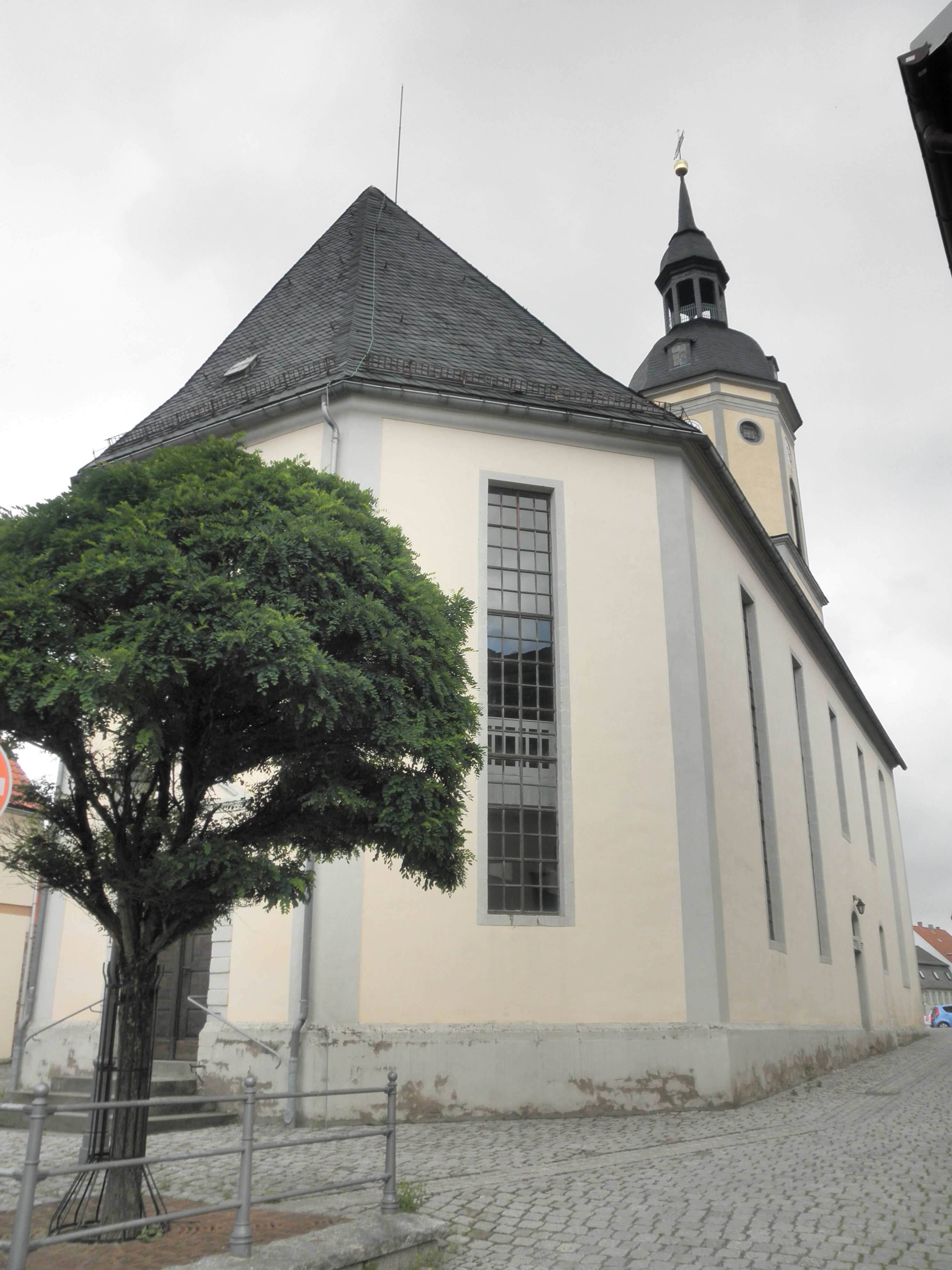 Church in Triptis in Thuringia